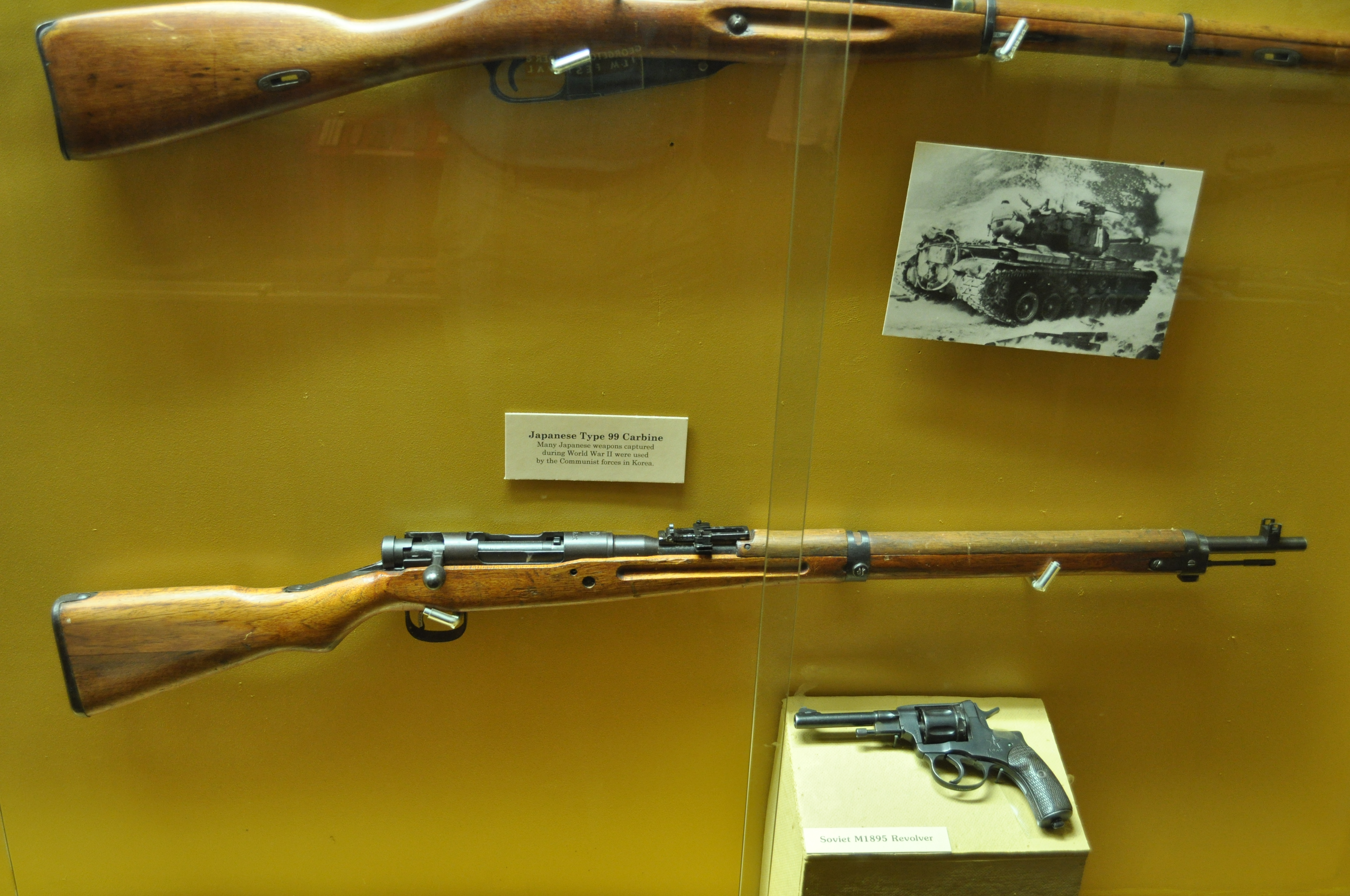 Japanese Type 99 carbine, Fort Lewis Military Museum, Fort Lewis, Washington, USA. Part of a display of the weapons of the Korean War.